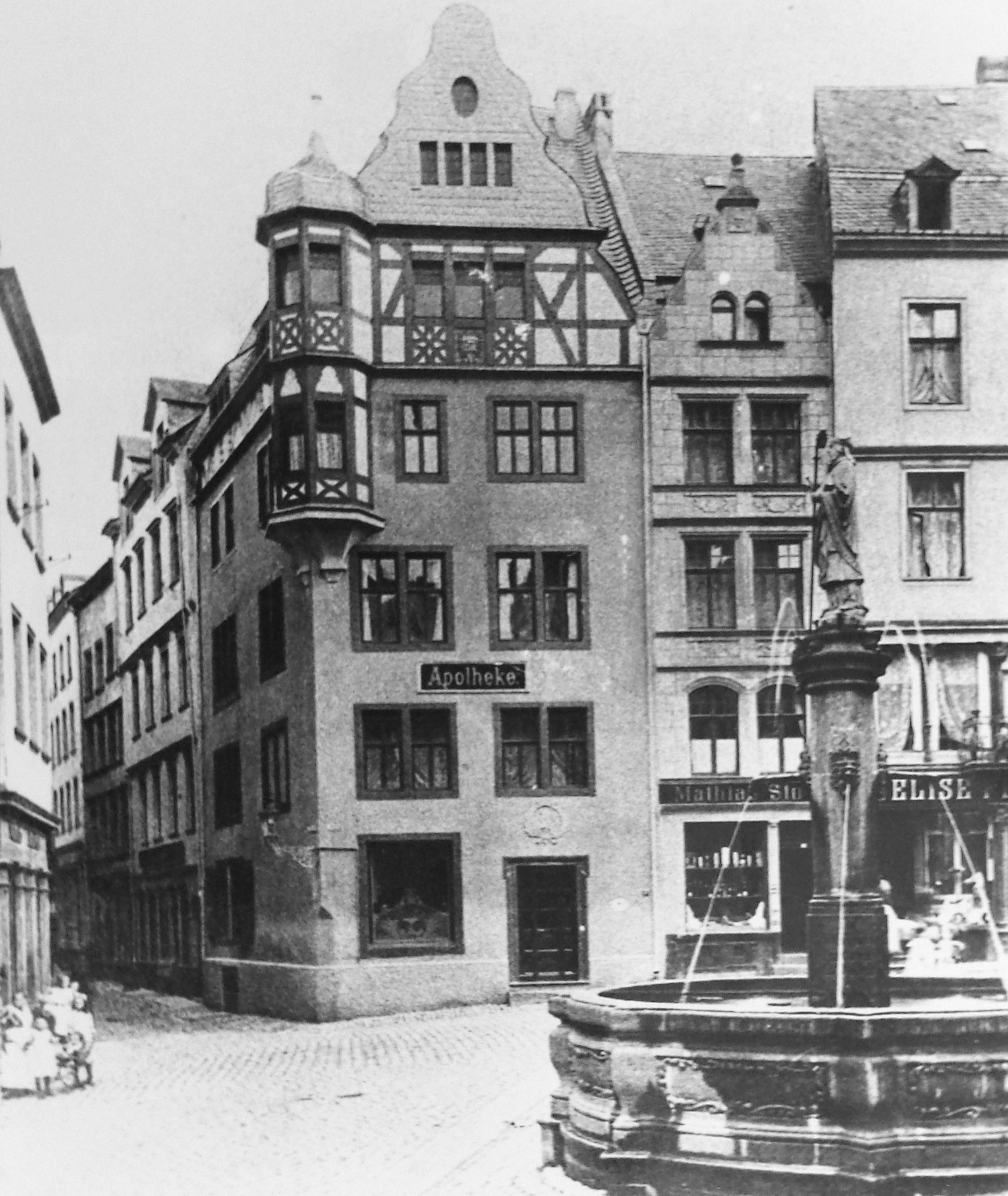 Old apothecary in Cochem City around 1905 named Mohren-Apotheke.